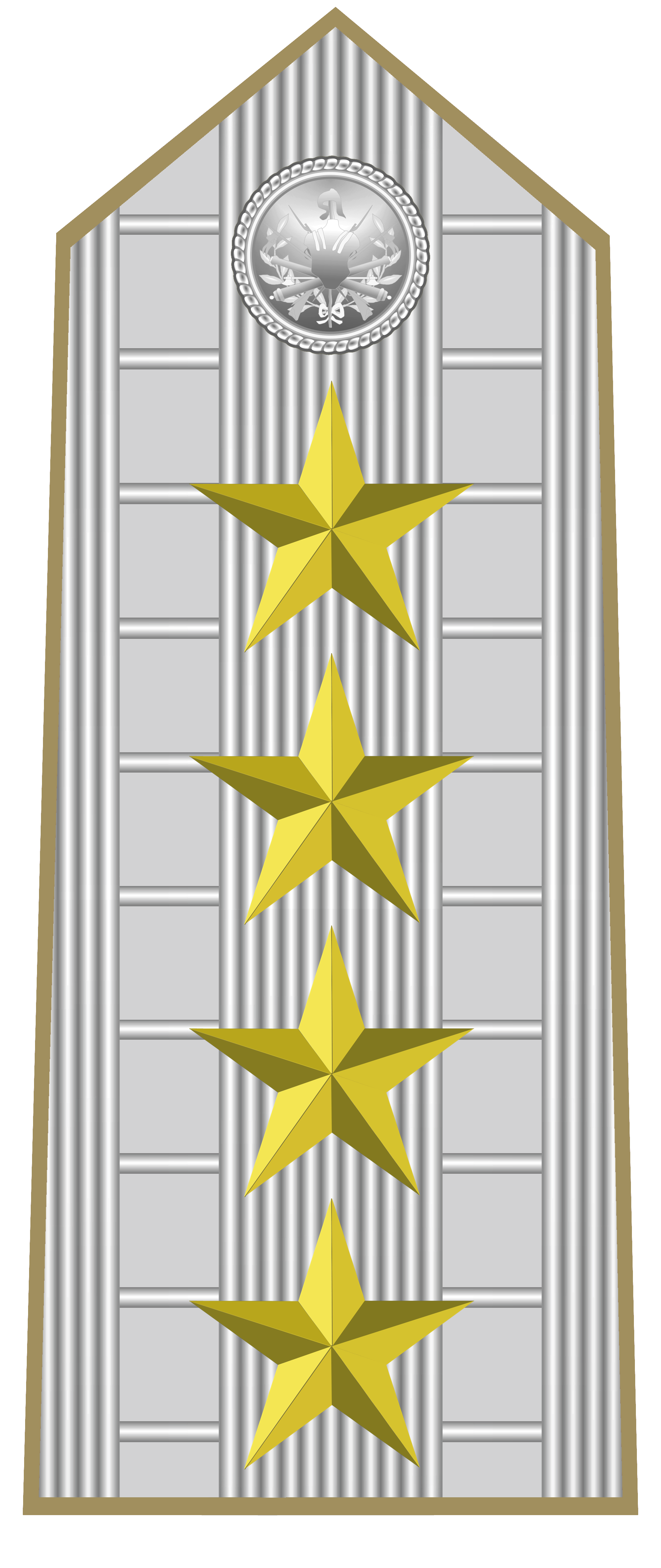 insignia for the shoulder of the rank of "maresciallo d'Italia" of the Italian Army (1945-1947)